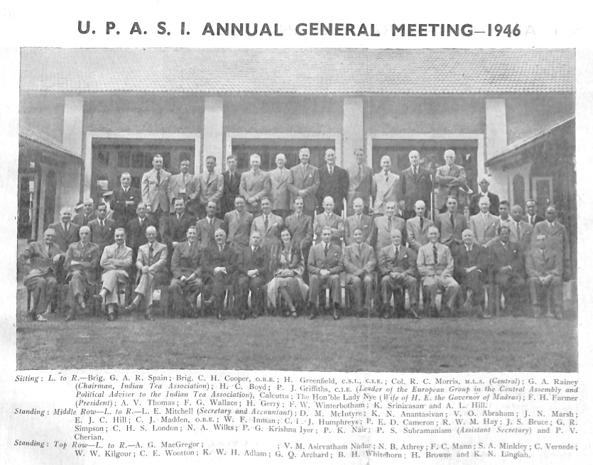 UPASI meeting in 1946. (L to R) Sitting: Brig. G.A.R. Spain; Brig. C.H. Cooper; H. Greenfield; R C Morris; G.A. Rainey; H.C. Boyd; P.J. Griffiths; Lady Nye; F.H. Farmer; A.V. Thomas; F.G. Wallace; H. Gerry; F.W. Winterbotham; K. Srinivasan and A.L. Hill Standing middle row: L.E. Mitchell; D.M. McIntyre; K N Anantasivan; V O Abraham; J N Marsh; E J C Hill; C.J.Madden; W.F.Inman; C.I.J. Humphreys; PED Cameron; RWM Hay; JS Bruce; GR Simpson; CHS London; NA Wilks; PG Krishna Iyer; PK Nair; PS Subramiam and PV Cherian Standing top row: AG MacGregor;?; VM Asirvatham Nadar; NB Athrey; F C Mann; SA Minkley; C. Vernede; WW Kilgour; CE Wootton; KWH Adlam; GQ Archard; BH Whitehorn; H Brown and K N Lingiah.